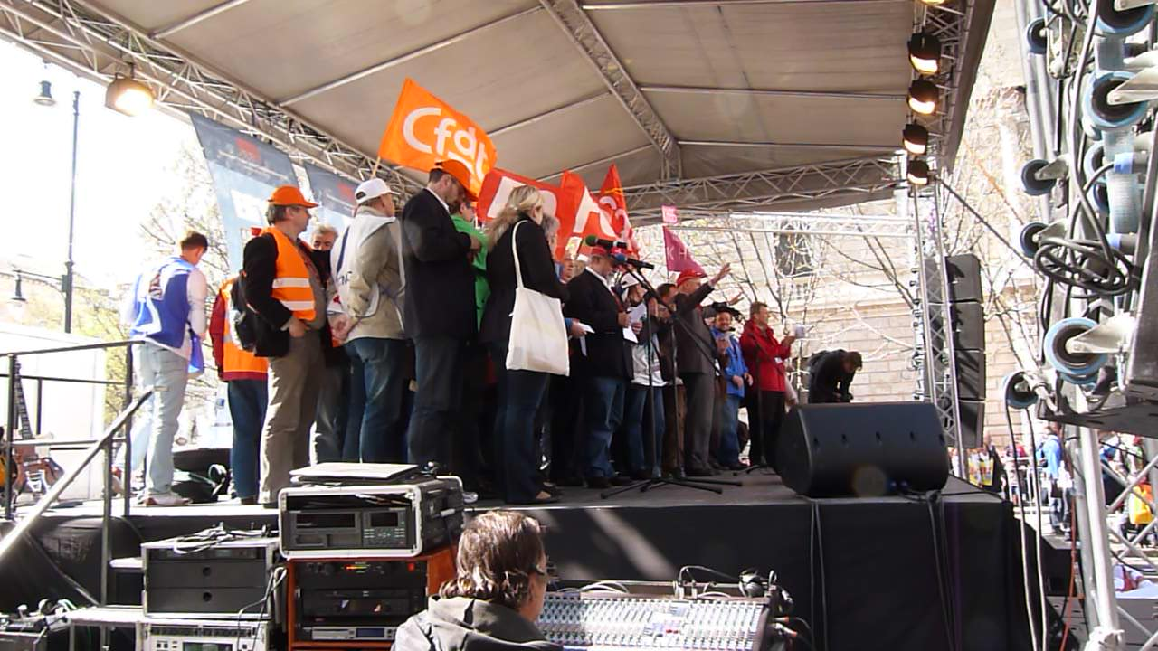 Live on the 9th of April, 2011, Budapest, the Andrássy avenue. The demonstration of the European Trade Union Confederation (ETUC). John Monks, the General Secretary of the ETUC. He said: we will not pay the price ! Solidarnosc. (Solidaríty, Polish trade union). The ETUC is union of 82 national trade union confederations and 12 European union confederations. 6 hungarian trade unions (LIGA, ASZSZ, SZEF, ÉSZT, MSZOSZ, MOSZ) joined. ©© Published under Creative Commons in the METAPOLISZ DVD line (from Metapolisz CD ISBN 963-229-987-6 to Metapolisz 260 DVD ISBN 978-615-5011-14-6) sourches: 2011. április 9 -én az Európai Szakszervezeti Szövetség (ETUC) tüntetést tartott Budapesten, az Andrássy úton. John Monks, az ETUC főtitkára. Azt mondta: Ne velünk fizettessenek ! Az ETUC 82 nemzeti szakszervezeti konföderáció és 12 európai szakszervezeti konföderáció szövetsége, amely összesen mintegy 45 millió munkavállalót képvisel Európában. Hat magyar szakszervezet (LIGA, ASZSZ, SZEF, ÉSZT, MSZOSZ, MOSZ) részt vett a megmozduláson. Források: A pénzvilág adósságcsapdája